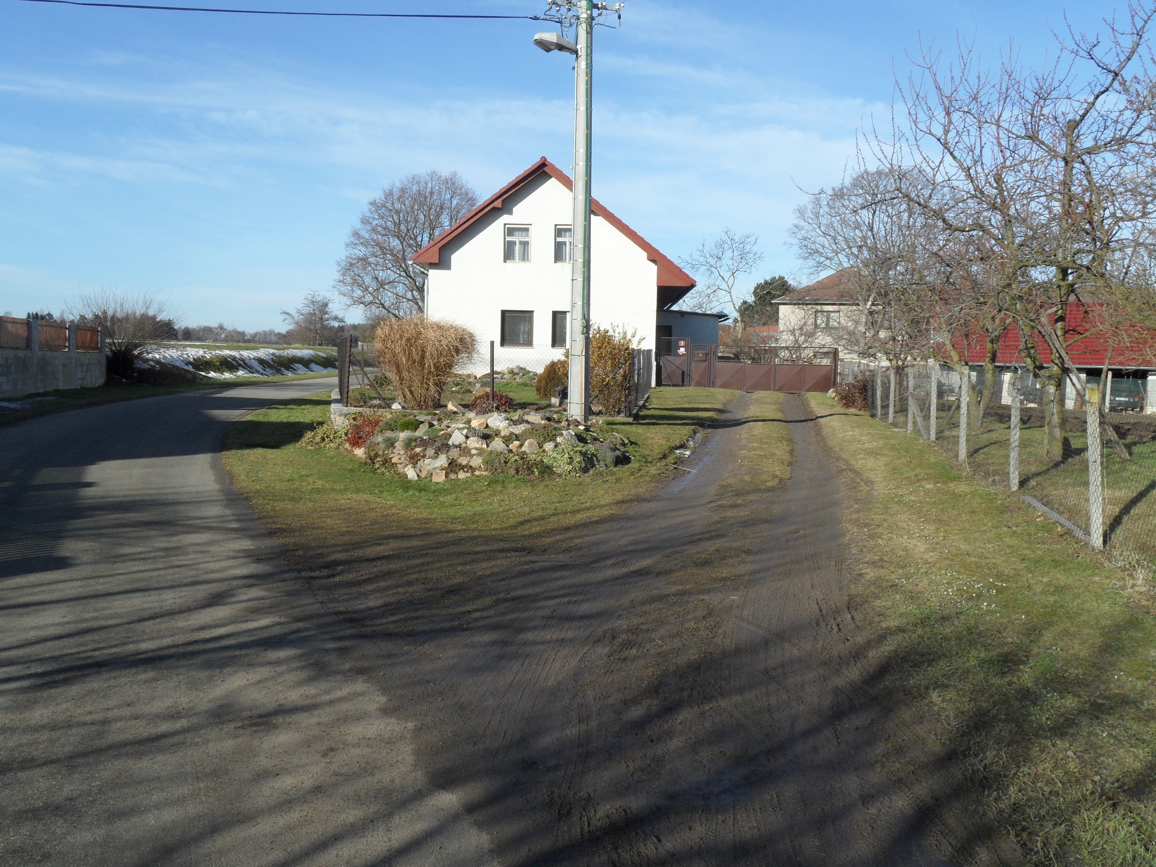 Krasoňovice (Černiny) A. In the Centre of Village, Kutná Hora District, the Czech Republic.